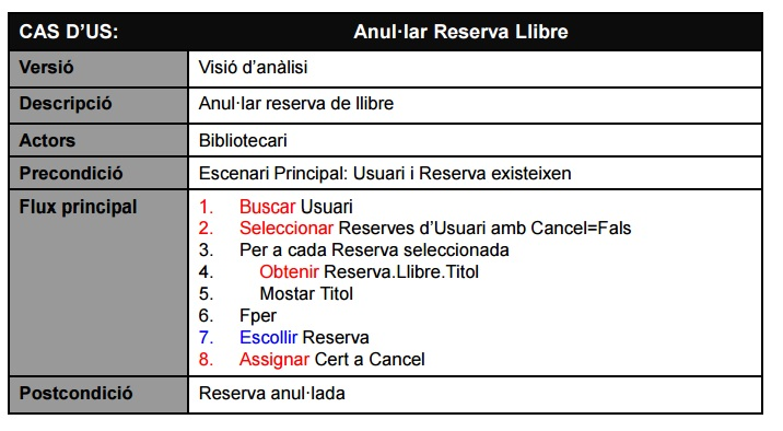 Exemple de fitxa de cas d'ús simple.